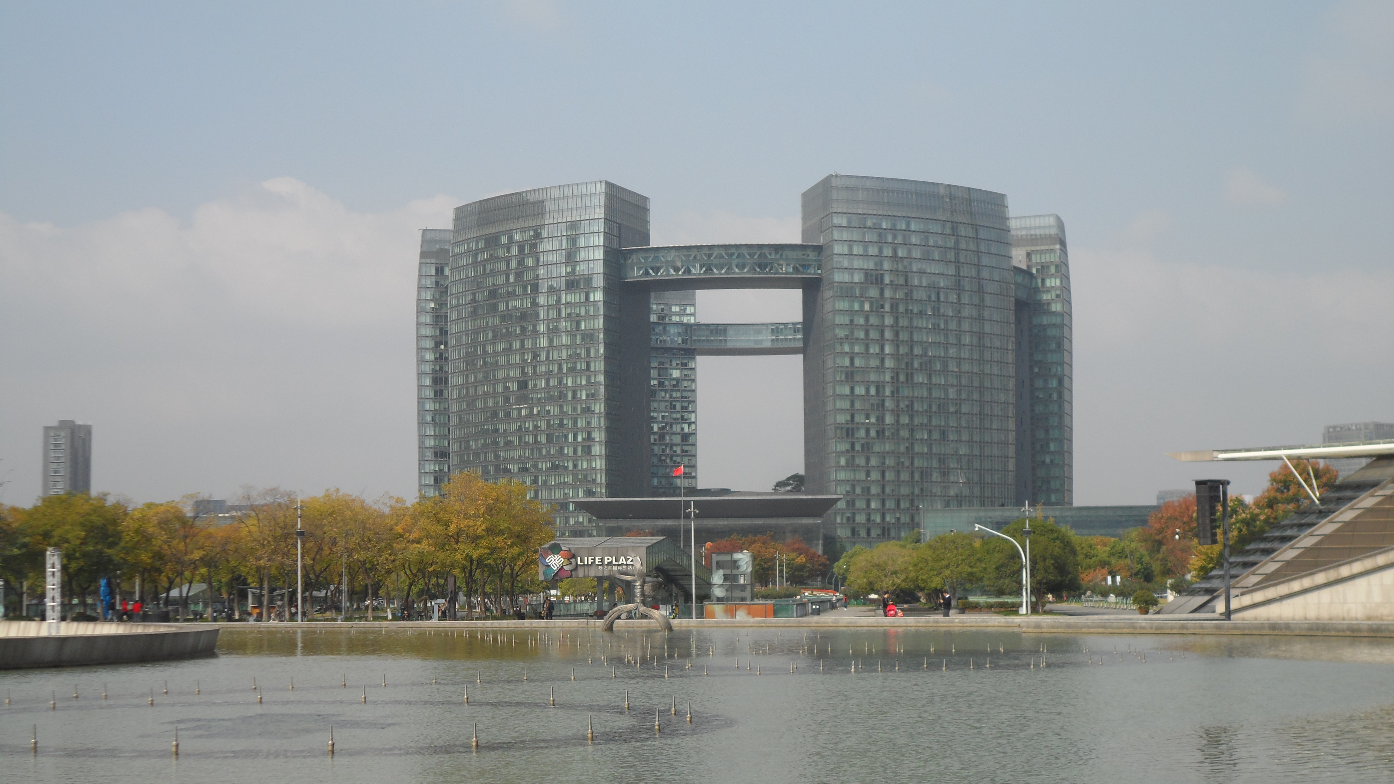 Hangzhou citizen center